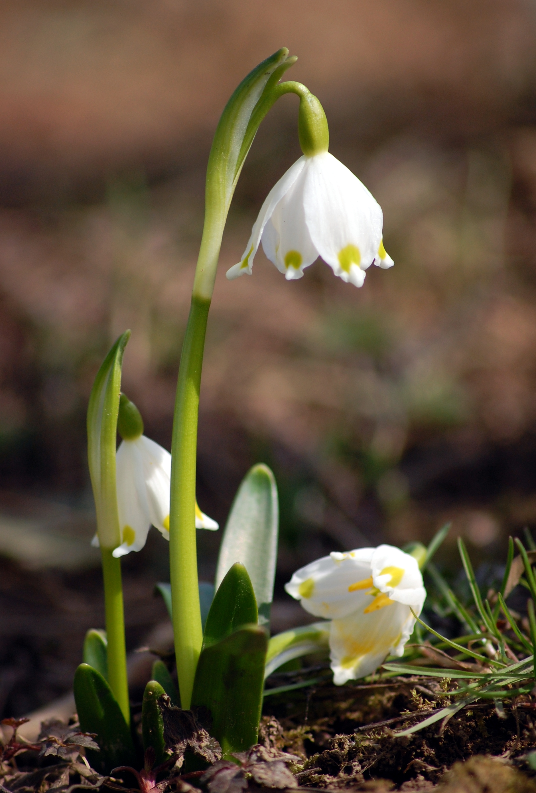 Spring Snowflake (Leucojum vernum